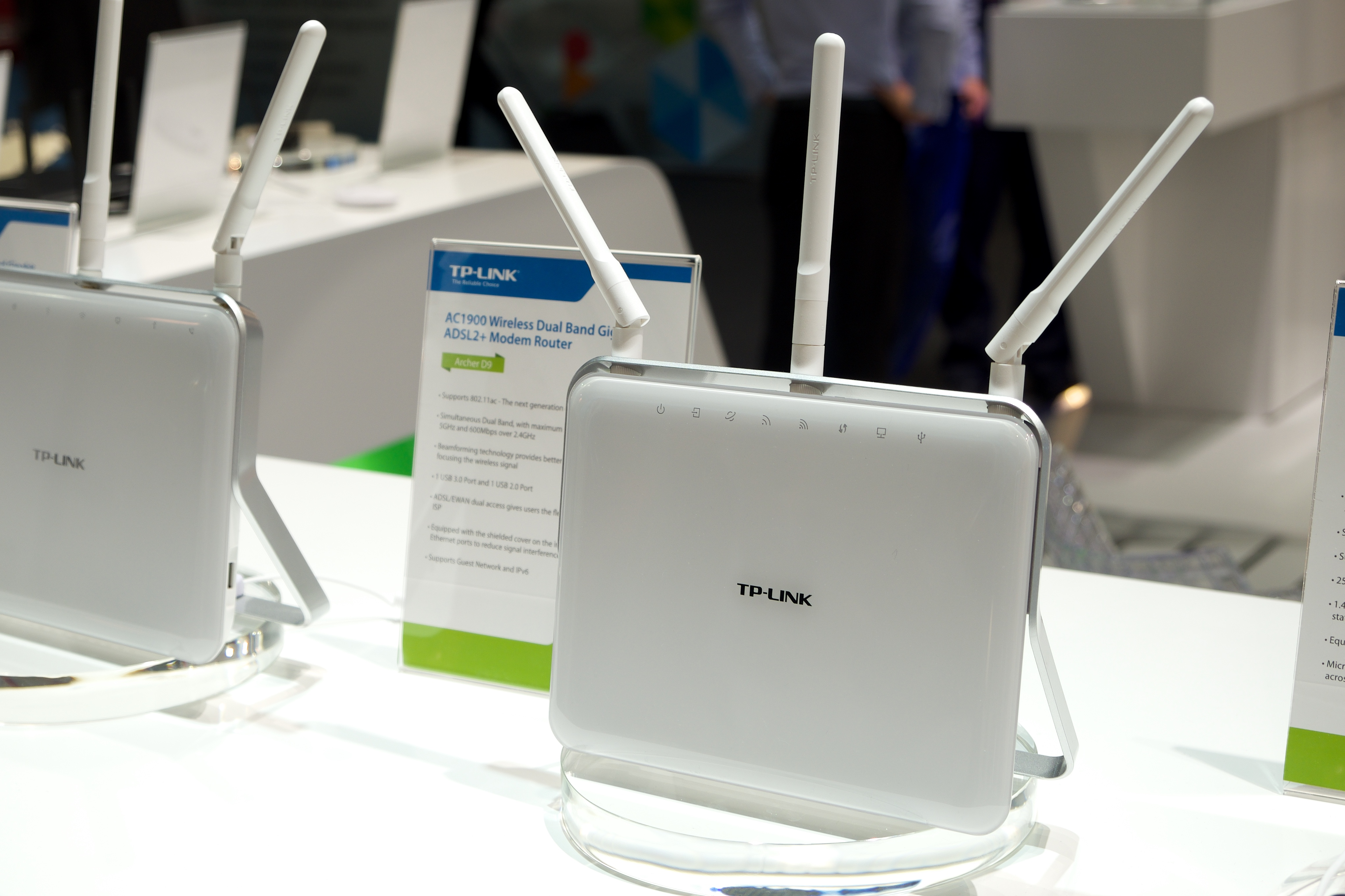 TP Link AC1900 Wireless Dual Band Gigabit ADSL2+ Modem Router